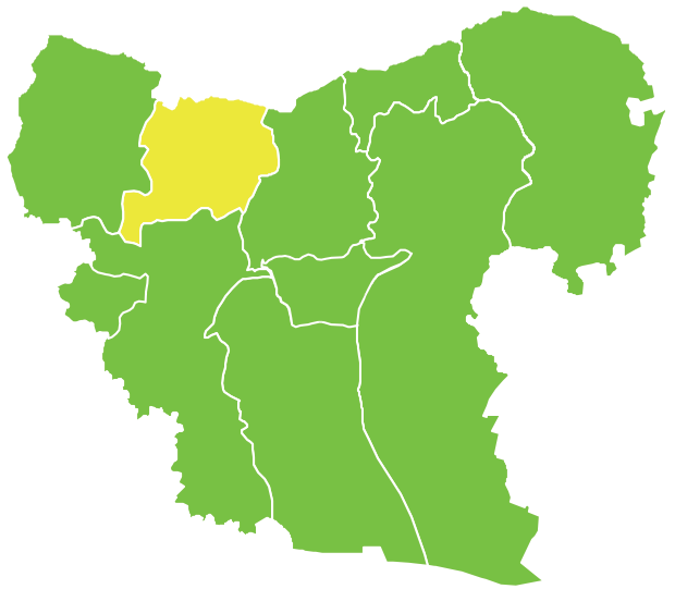 A'zaz District — in the Governorate of Aleppo, northern Syria. A Kurdish inhabited region in Syria, part of de facto Syrian Kurdistan. Northern boundary along the Syrian-Turkish border.